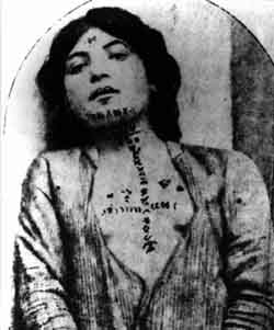 Armenian woman put up for auction. (Richard G. Hovannisian: Remembrance and denial. Wayne State University Press, Detroit 1998)